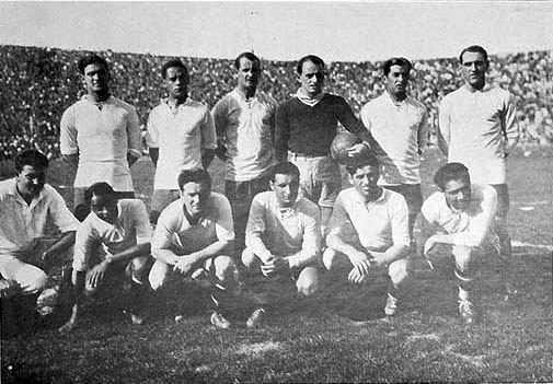 Uruguay national football team at the 1929 Campeonato Sudamericano, before playing the match against Argentina. Back row, l. to r.: Álvaro Gestido, Gildeón Silva, José Nasazzi, Andrés Mazali, Pedro Arispe, Lorenzo Fernández. Front row, l. to r.: Conduelo Píriz, Héctor Scarone, Héctor Castro, Pedro Cea, Antonio Cámpolo.